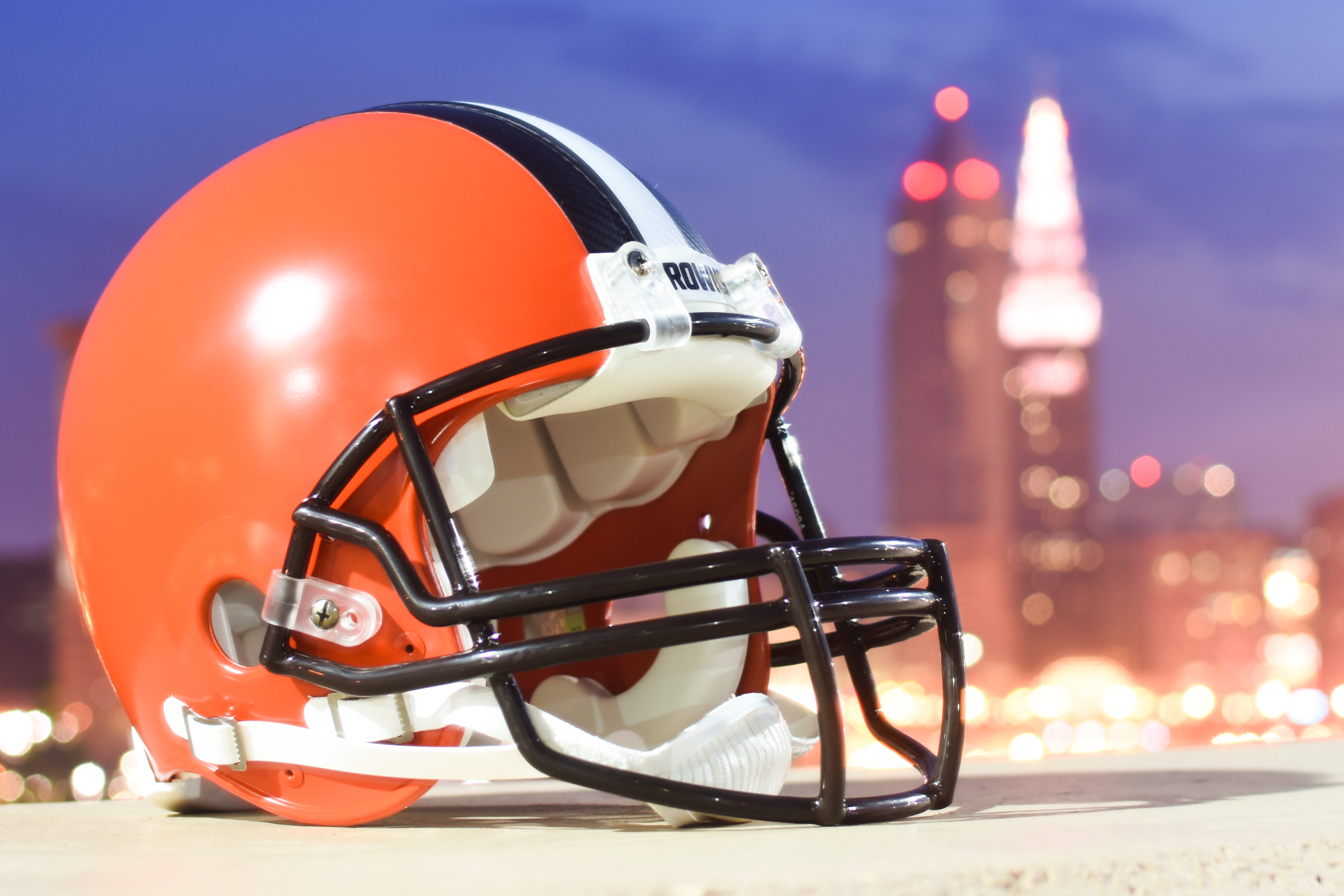 Cleveland Browns New Helmet